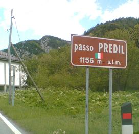 Predil Pass